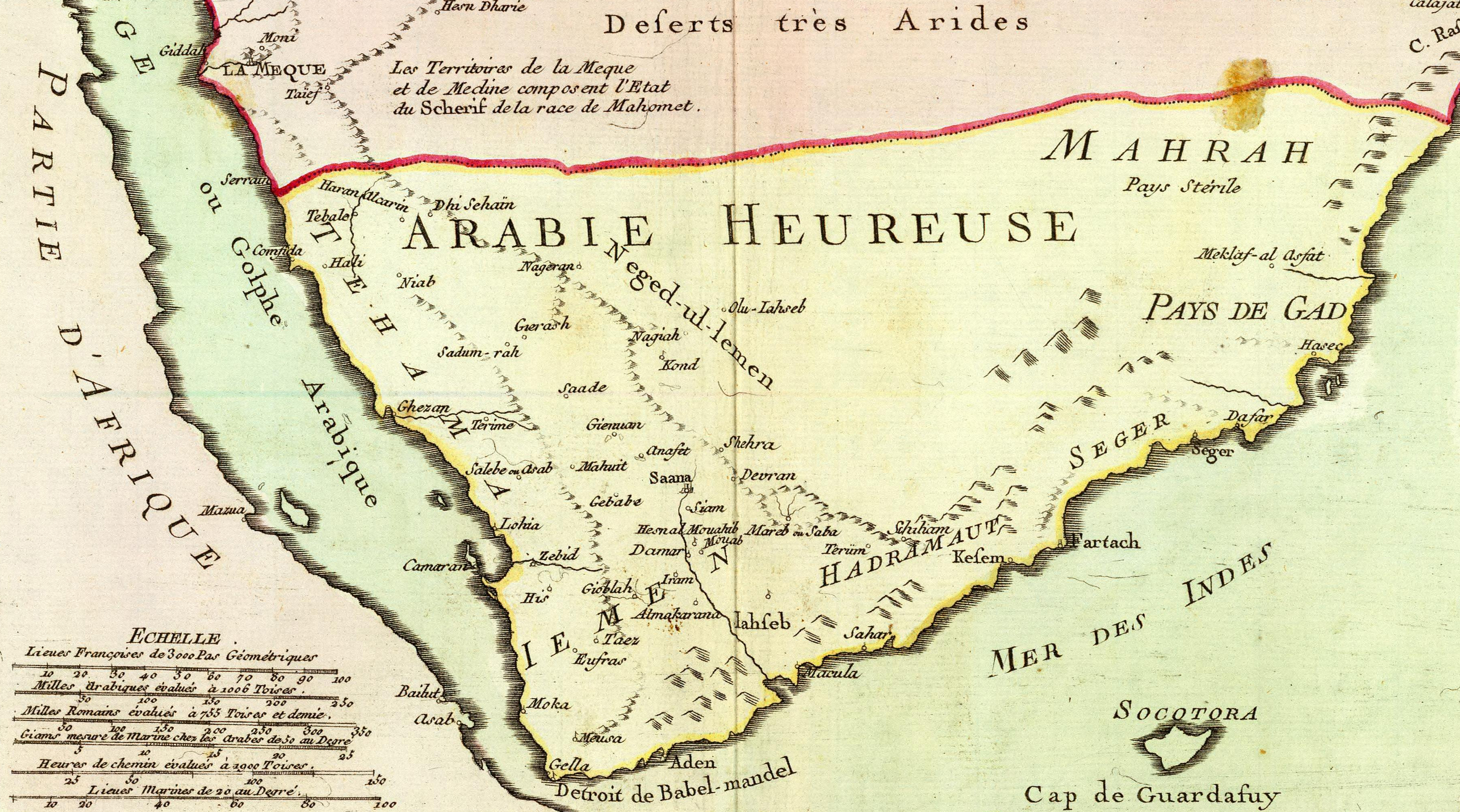 French map shows Arabia Felix (Arabie Heureuse)